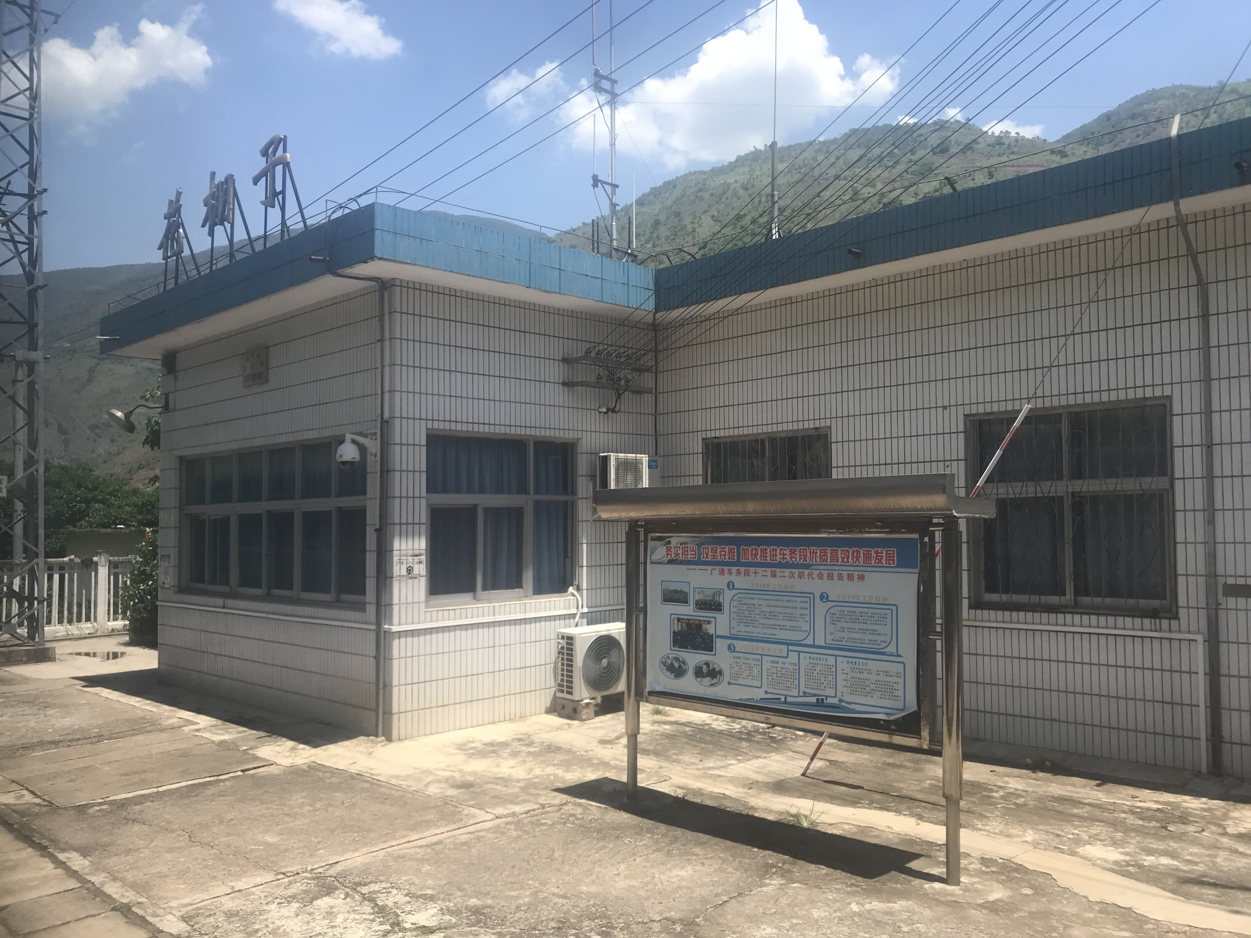 201908 Station Building of Huapengzi